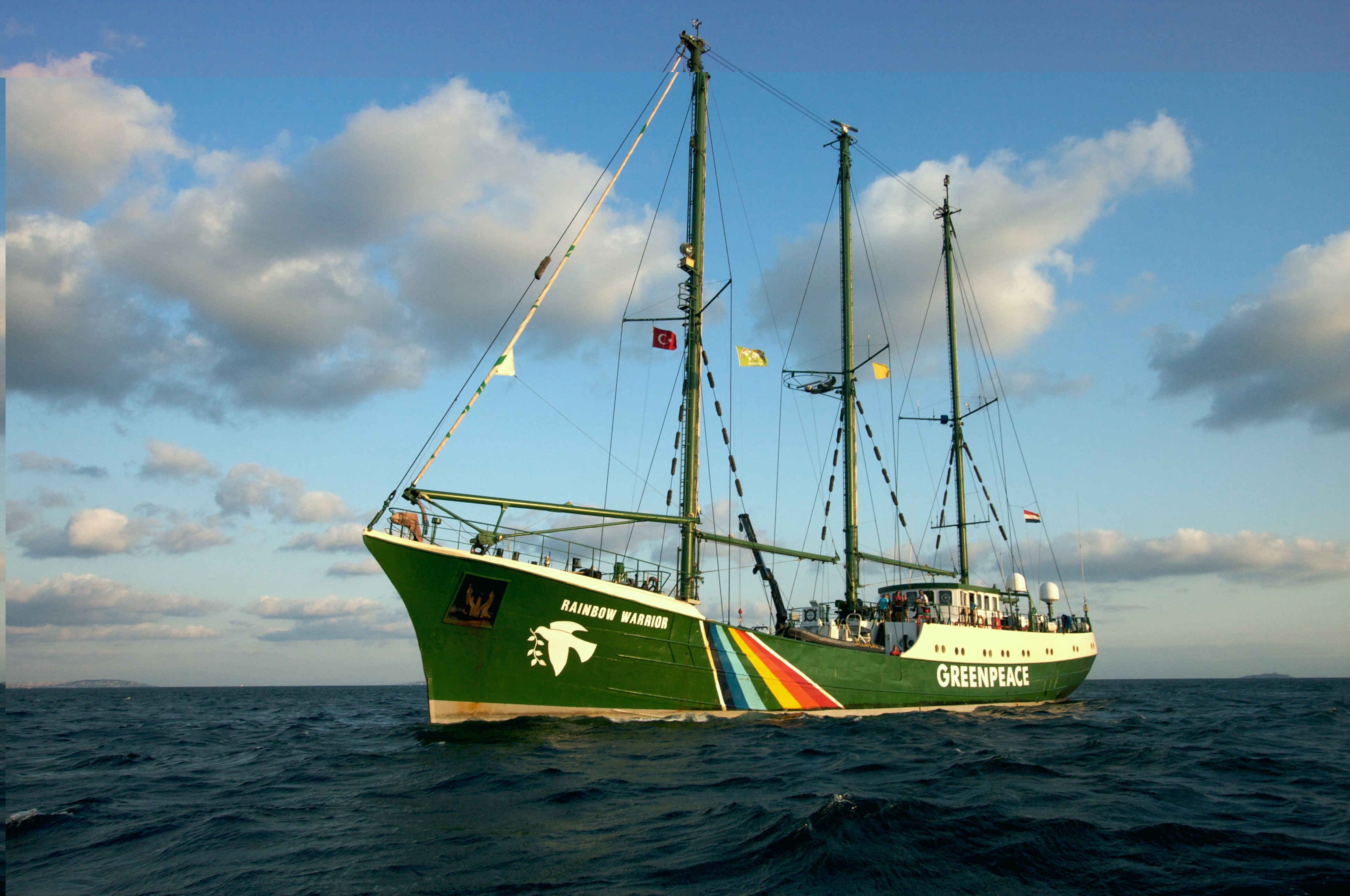 "Rainbow Warrior II" On The Bosphorus.